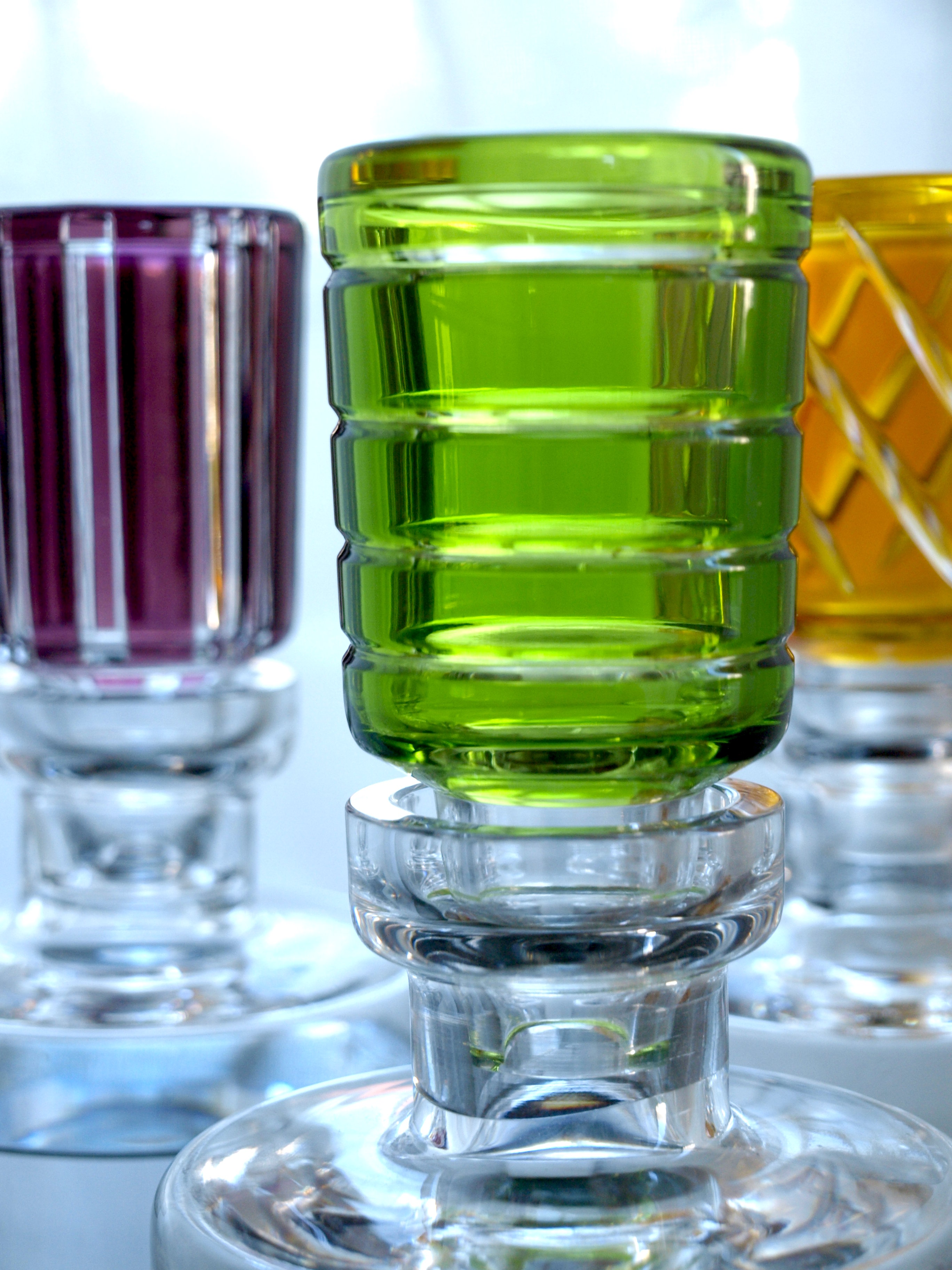 Handmade lead crystal carafes